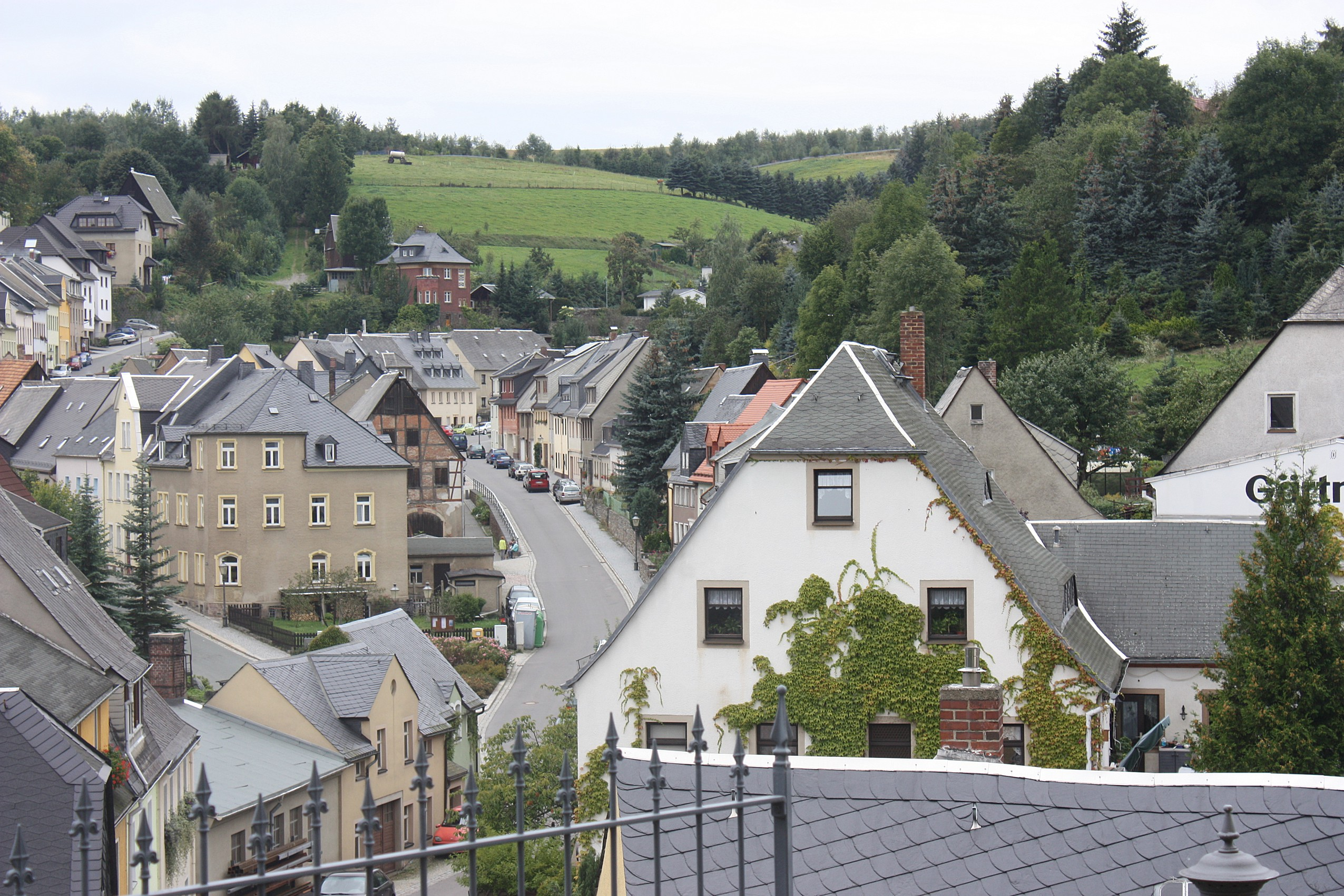 Zschopau, view to the Wiesenstraße